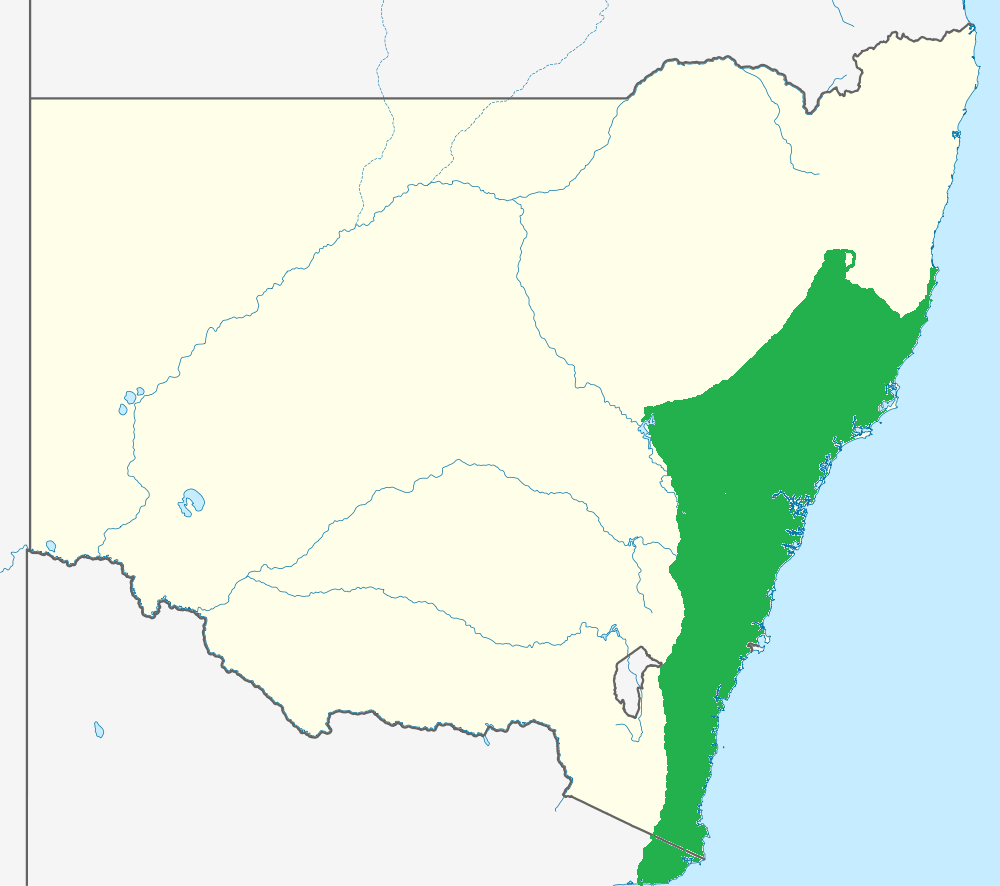 Persoonia linearis range, adapted from Weston, Peter H. (1995) "Persoonioideae" in McCarthy, Patrick (ed.) , ed. Flora of Australia: Volume 16: Eleagnaceae, Proteaceae 1, CSIRO Publishing / Australian Biological Resources Study, pp. 47–125 ISBN: 0-643-05693-9. . Original map is png version of File:Australia New South Wales location map blank.svg Additional source from official NSW government website (Plantnet) at species profile page.